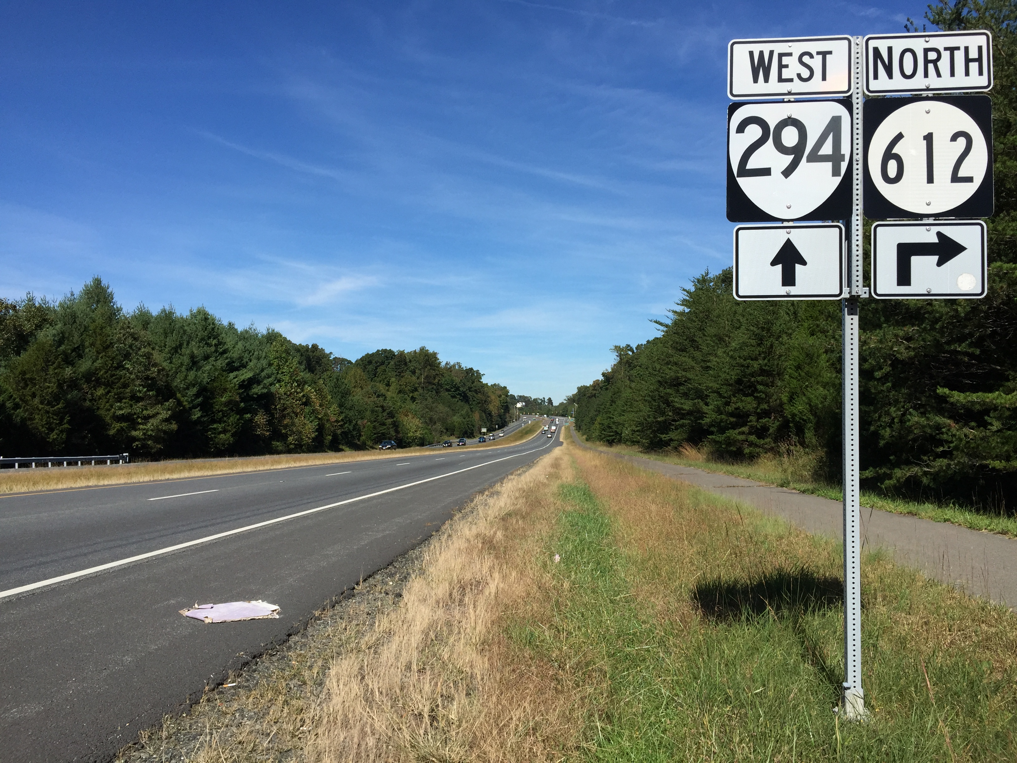 View west along Virginia State Route 294 (Prince William Parkway) at Larksong Court in Buckhall, Prince William County, Virginia